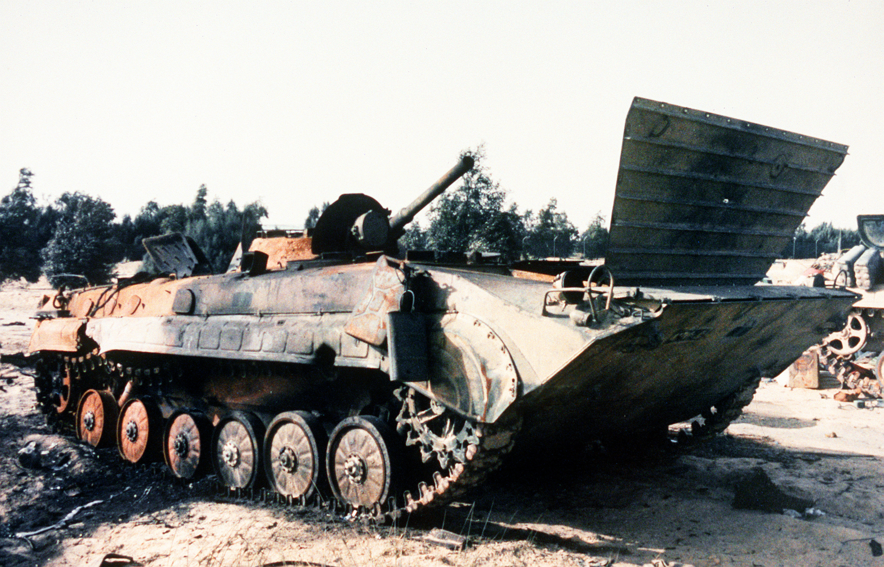 Iraqi BMP-1 IFV sits in a field after being destroyed during Operation Desert Storm.